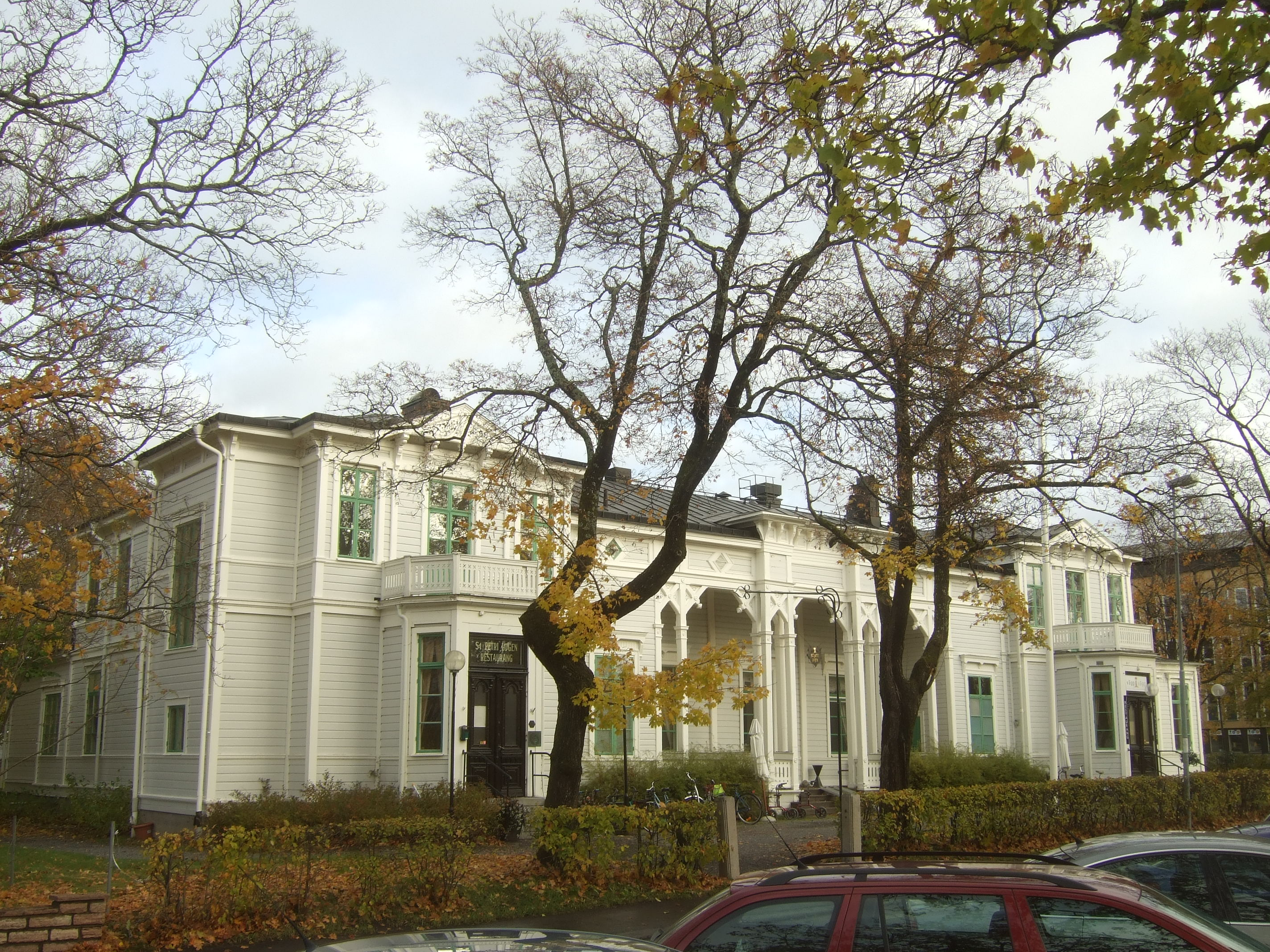 The house of "Sankt Petrilogen" at Brunnshusgatan 1 in Härnösand. Trädgårdsgatan entrances, viewed from southwest.